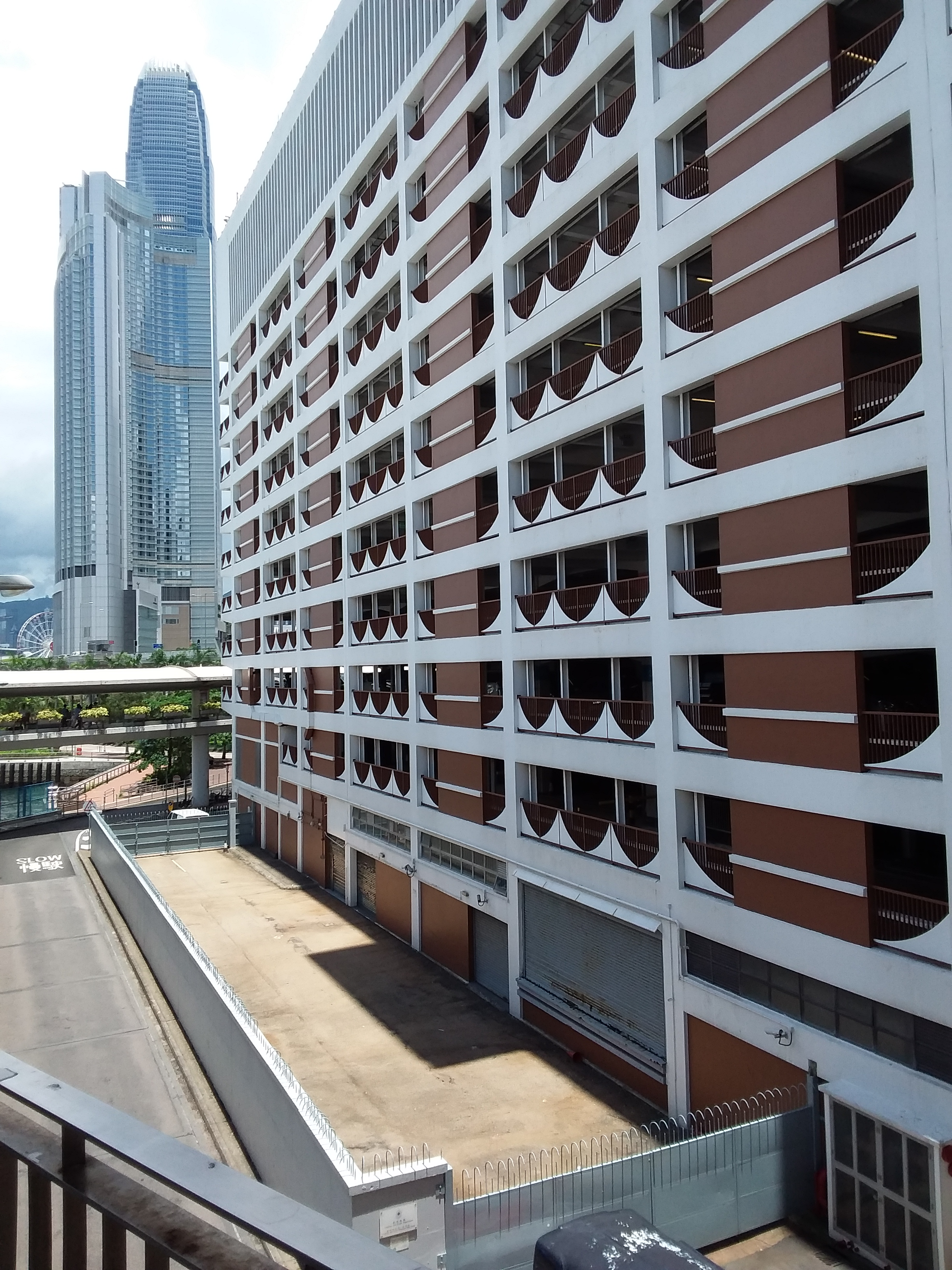 HK 上環 Sheung Wan Central footbridge view Rumsey Street Multi-Storey Car Park in July 2019